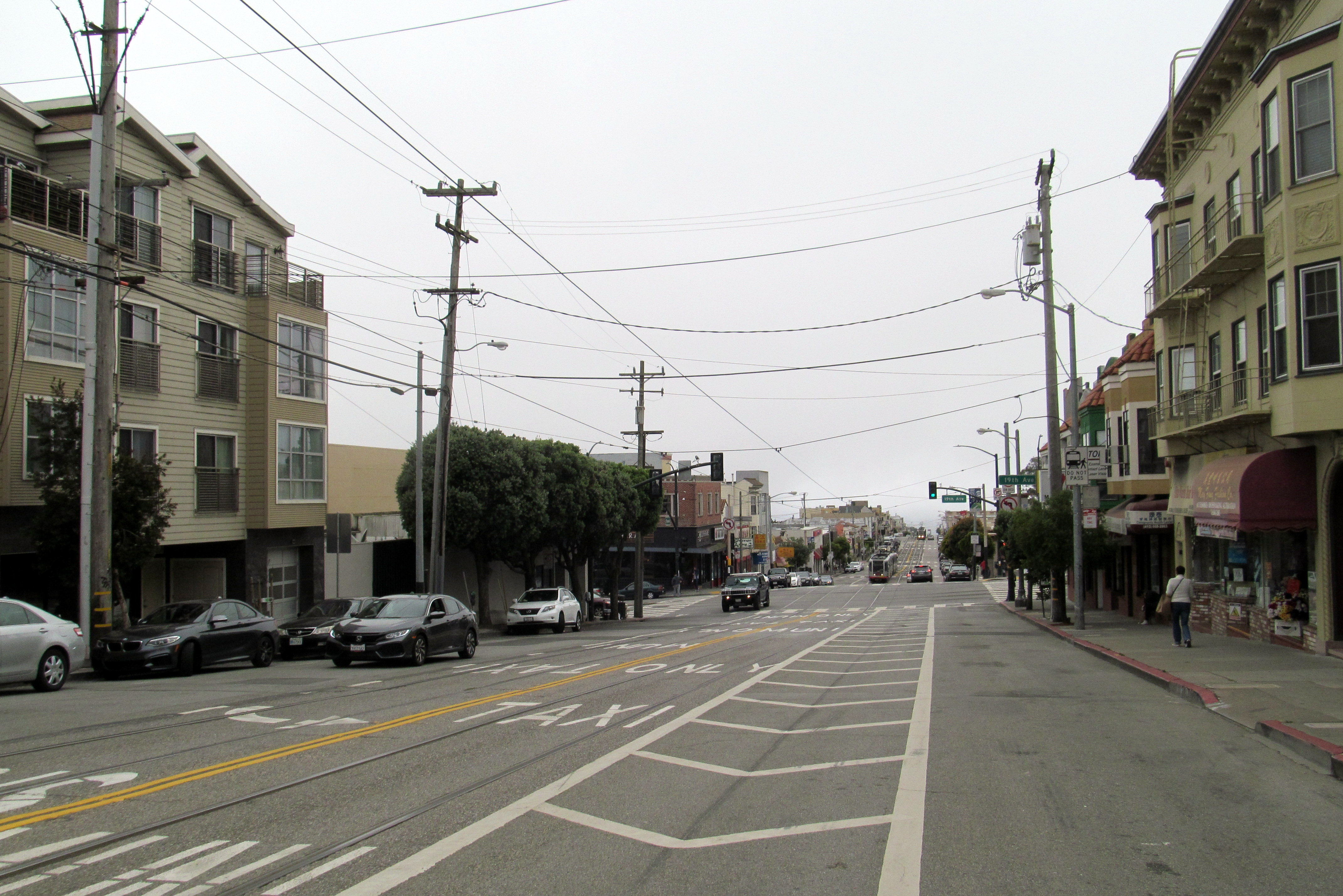 Outbound painted safety zone at Taraval and 19th Avenue station in June 2017. Painted safety zones were added at a number of L Taraval stops in January 2017; concrete platforms will eventually replace most or all.